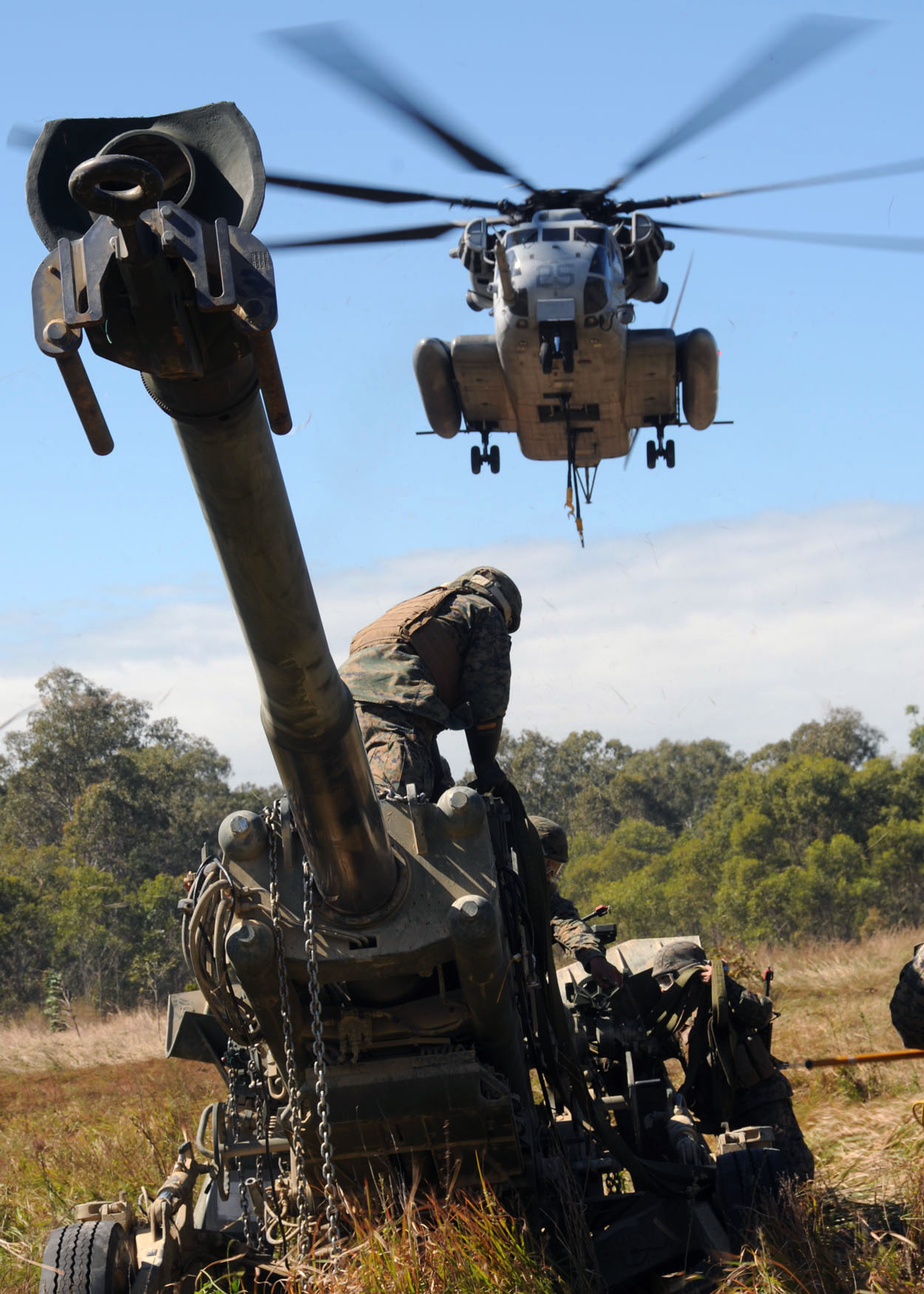 SHOALWATER BAY, Australia (July 19, 2009) Marines assigned to the 31st Marine Expeditionary Unit, embarked aboard the forward-deployed amphibious assault ship USS Essex (LHD 2), rig an M777 155mm lightweight Howitzer for lift by an MH-53E Sea Stallion helicopter, assigned to the Air Combat Element of the 31st MEU, as a part of exercise Talisman Saber 2009. Talisman Saber is a biennial, combined training activity designed to train Australian and U.S. forces in planning and conducting combined operations, which will help improve combat readiness and interoperability between Australian and U.S. forces. (U.S. Navy photo by Mass Communication Specialist 2nd Class Mark R. Alvarez/Released)